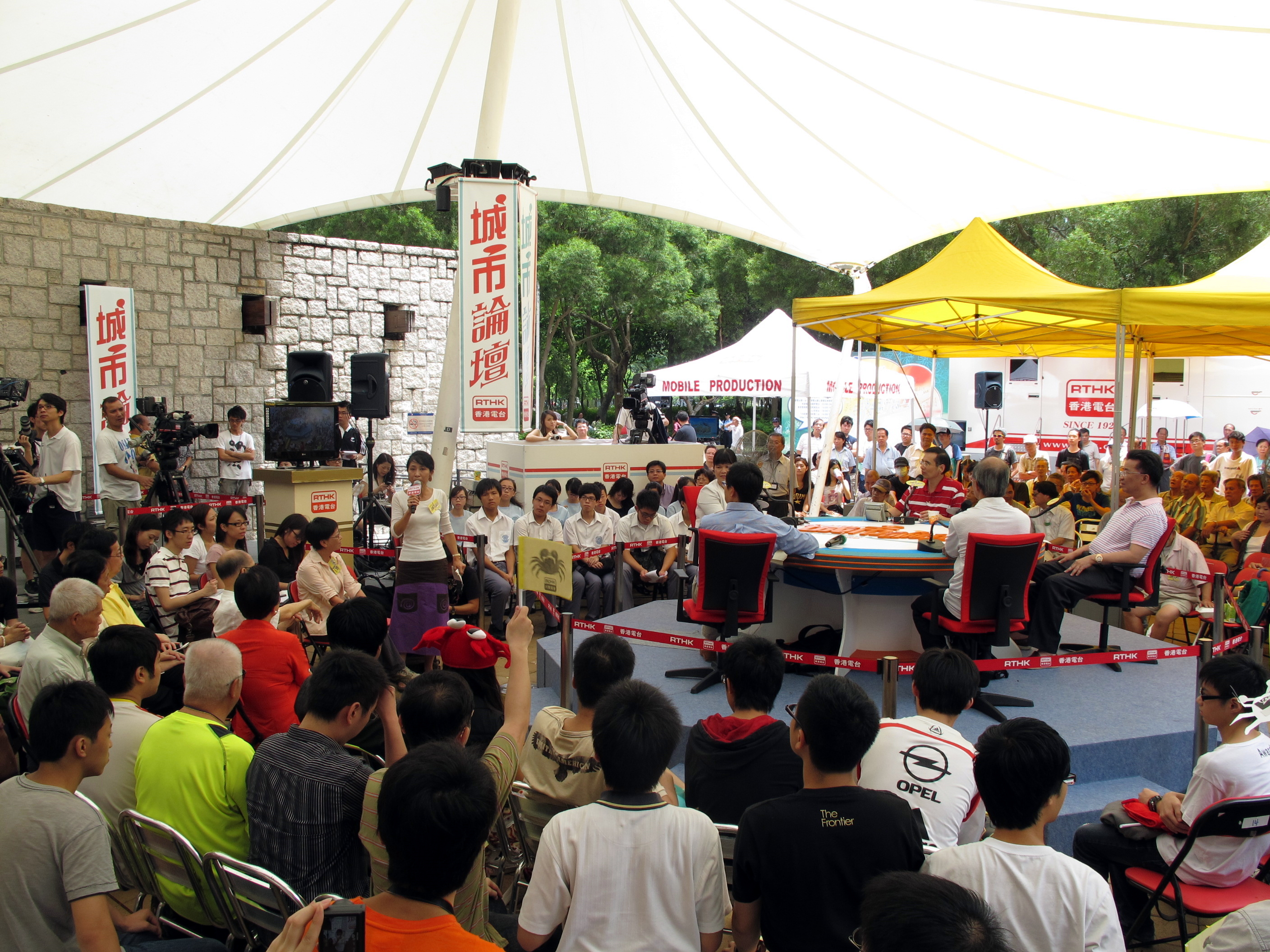 RTHK City Forum Live